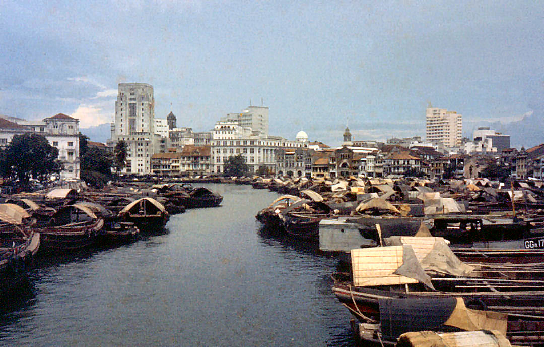 Bumboats on the Singapore River.